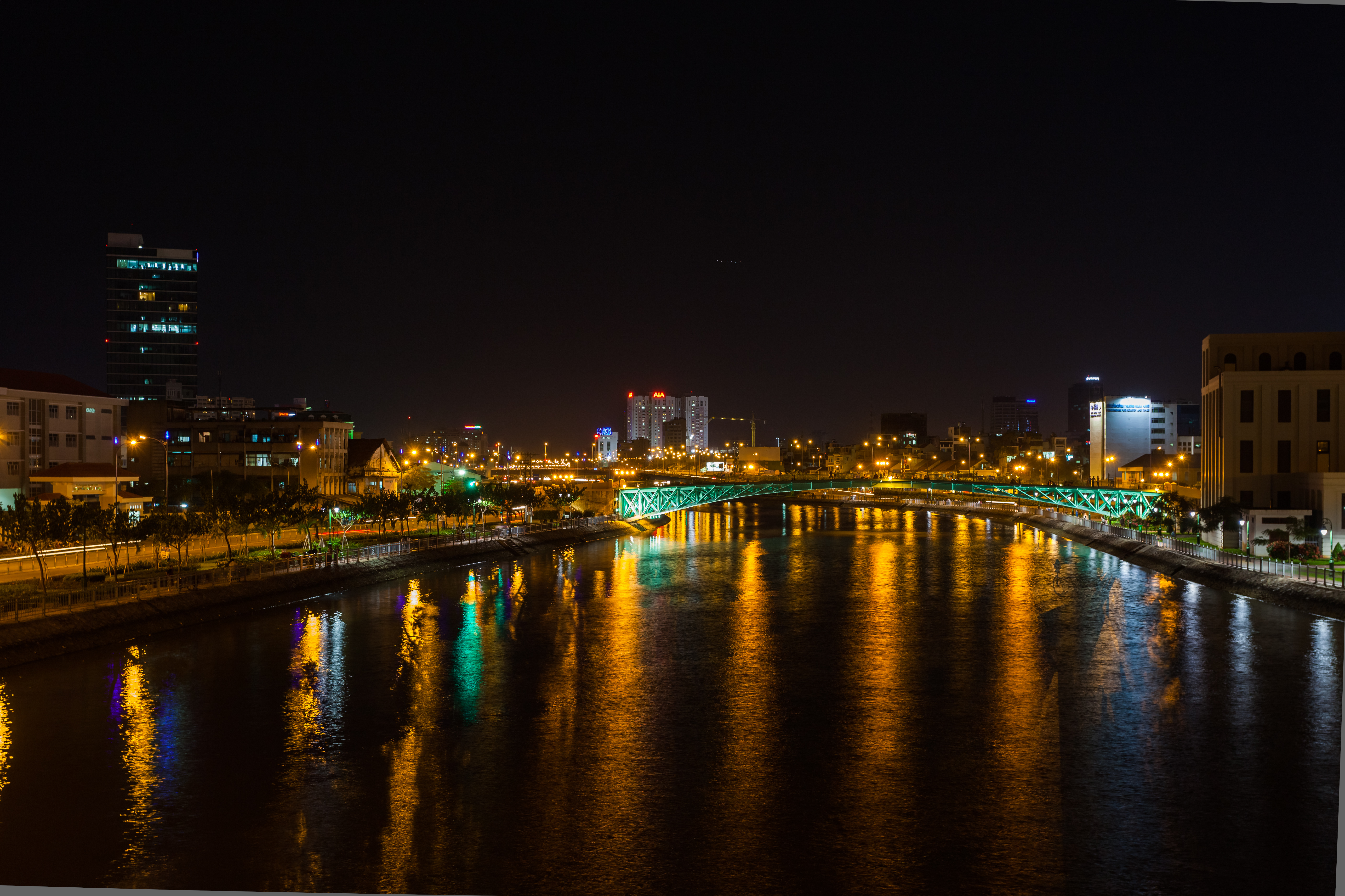 Mong Bridge, Ho Chi Minh City, Vietnam